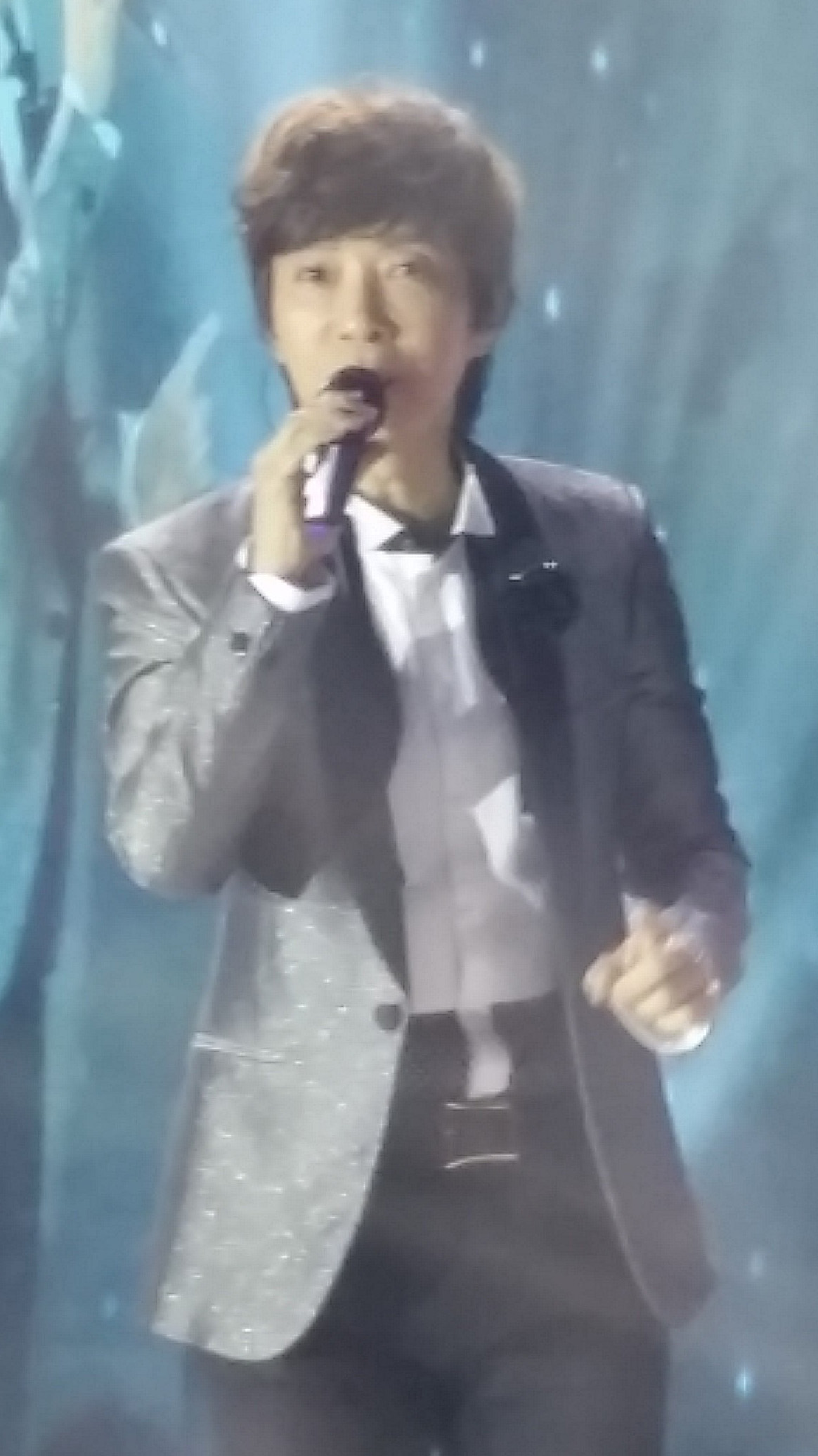 Samuel Tai is in AsiaWorld-Expo